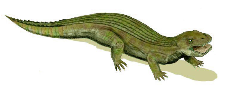 Simosuchus clarki, a crocodylomorph from the Upper Cretaceous of Madagascar, pencil drawing